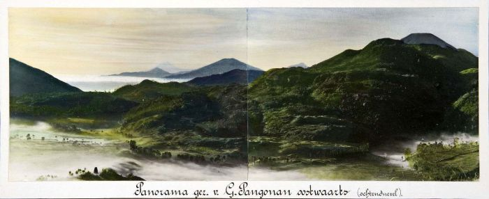 Dieng Plateau view at dawn, with morning mist